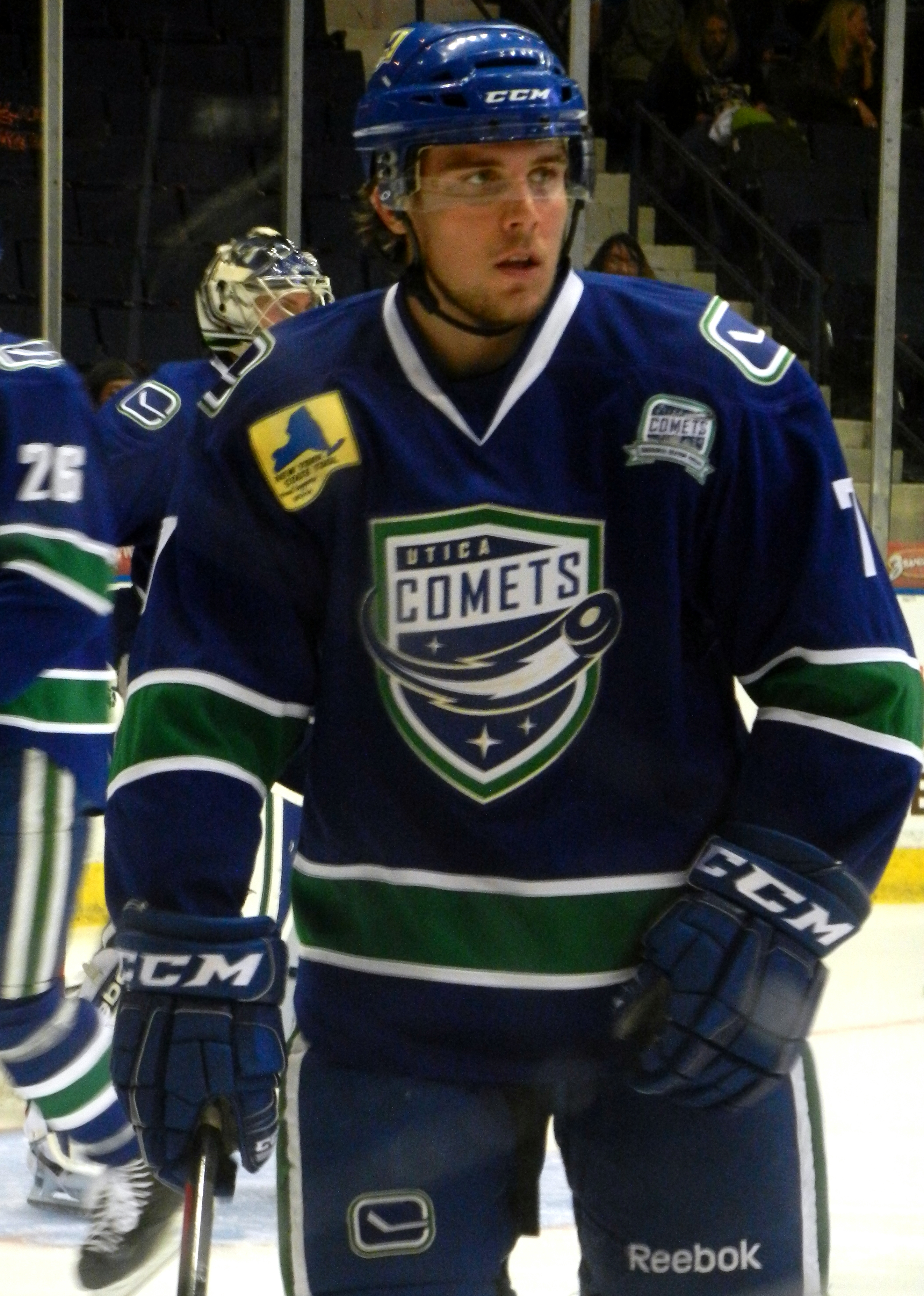 Henrik Tömmernes playing for the American Hockey League's Utica Comets in a game vs. the Rochester Americans during the 2103-14 season